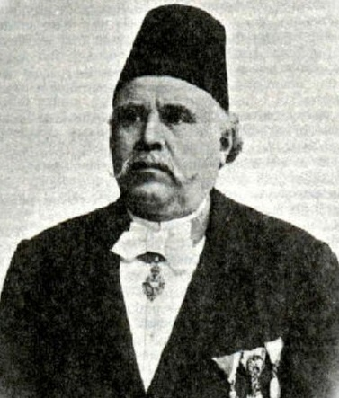 Mehmed-beg Kapetanović Ljubušak (Vitina, 19th July 1839. - Sarajevo, 29 July 1902.) was a Bosniak author and politician.